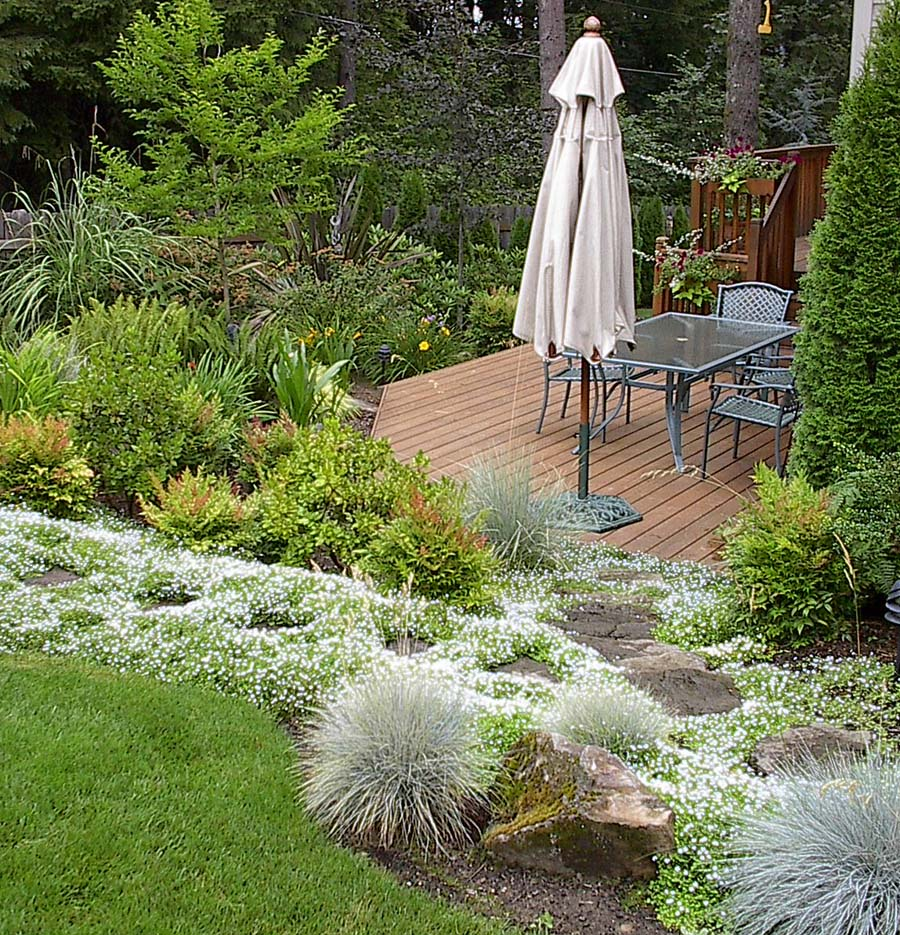 Part of a landscape and design project by M. D. Vaden of Oregon, in Beaverton, Oregon, with a tree, shrubs, ground covers and ornamental grasses (including blue fescue, Japanese snowbell tree and Nandina domestica 'Gulf Stream'.